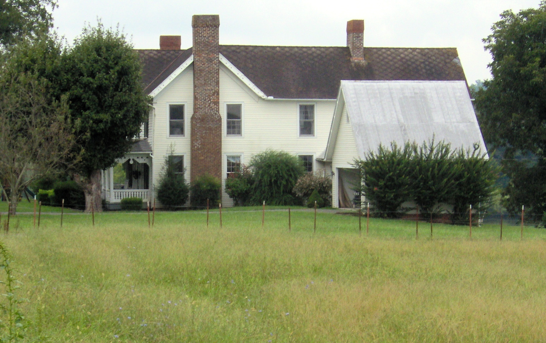 Benjamin Brabson house, built 1856, at Brabson's Ferry Plantation in Boyds Creek, Tennessee, USA.